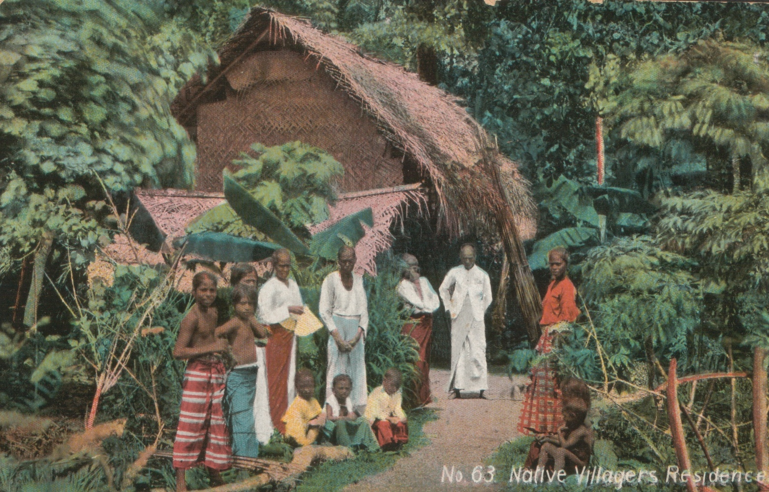 Wanniyala-Aetto Village